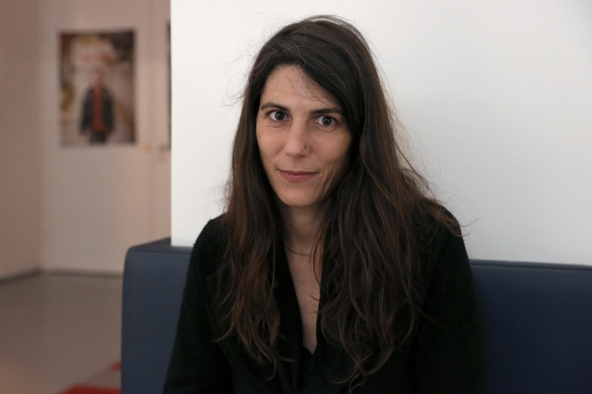 Vienna International Film Festival 2013: Véréna Paravel (Stadtkino im Künstlerhaus, Vienna, Austria).